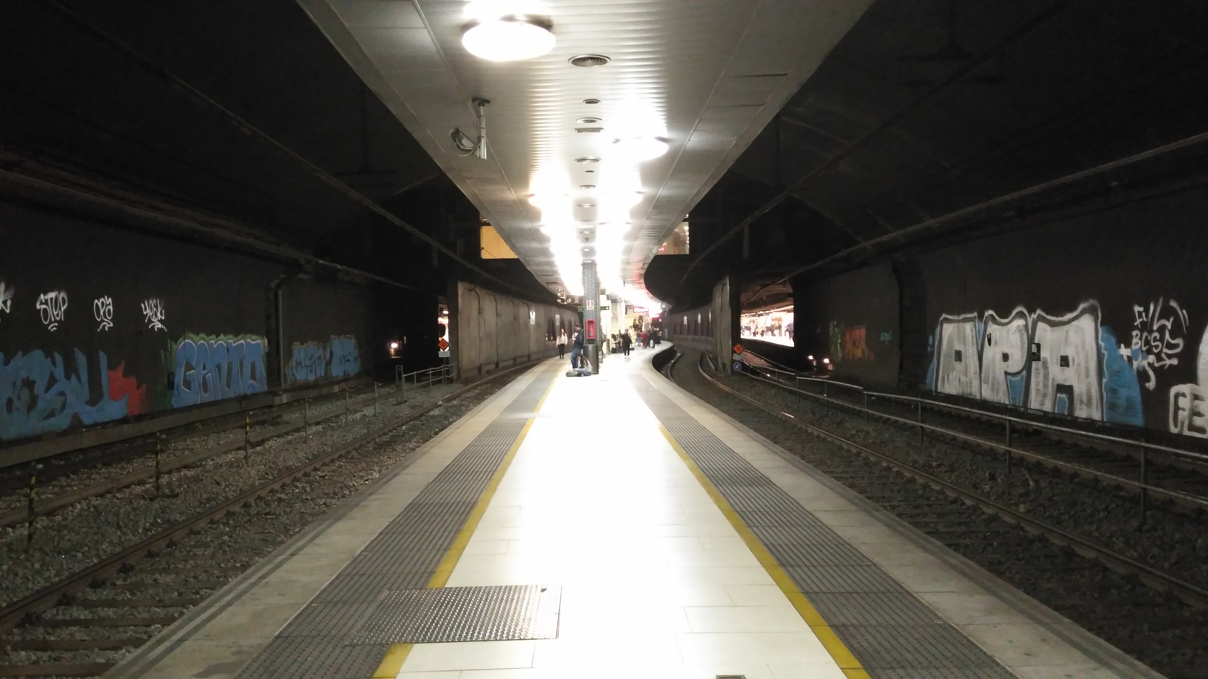 General view of Adif and L1 Plaça de Catalunya station. From the left to the right: L1 track to Hospital de Bellvitge Adif track to Barcelona Sants Adif/Renfe/Rodalies platform Adif track to Arc de Triomf L1 track to Fondo